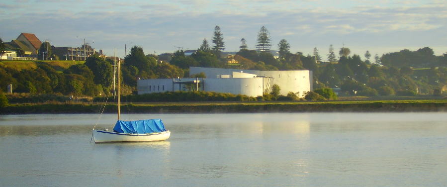 Beachieon Maritime Discovery Centre Portland Harbour Precinct